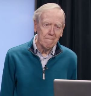 Gilbert Strang.JPG